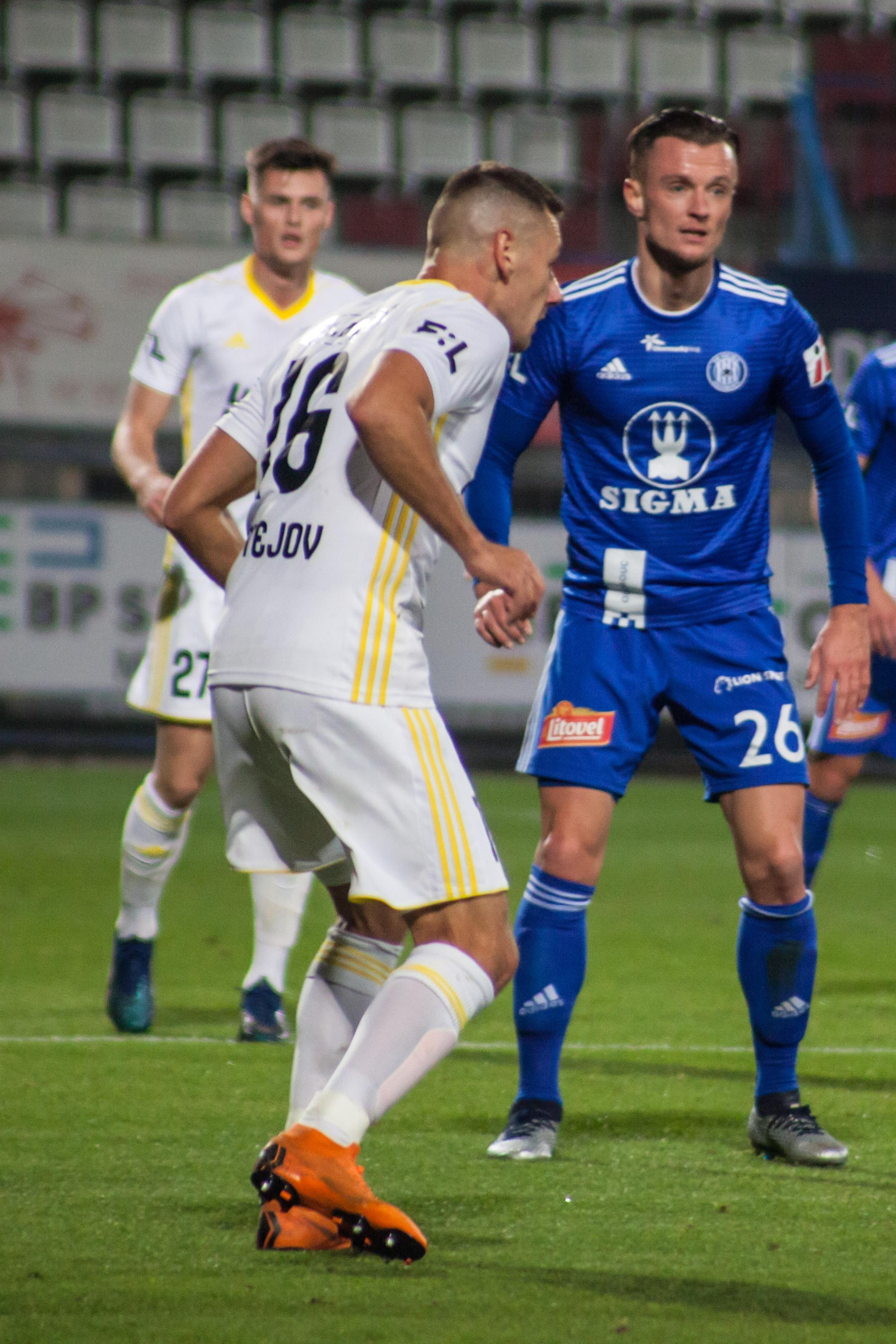 Martin Nešpor At Czech cup (MOL Cup) match SK Sigma Olomouc-FC Fastav Zlín played on 15 November 2018